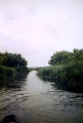 Ob' - Yenisey channel 3